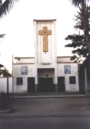 Photo by J. Patrick Fischer Church of Baucau/Timor-Leste 22nd June 2002